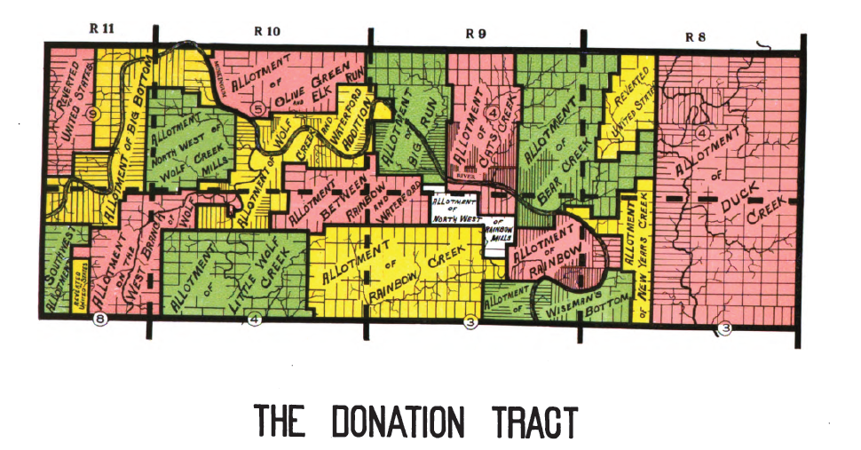 A tract of land donated by congress to the Ohio Company of Associates late in the 18th century